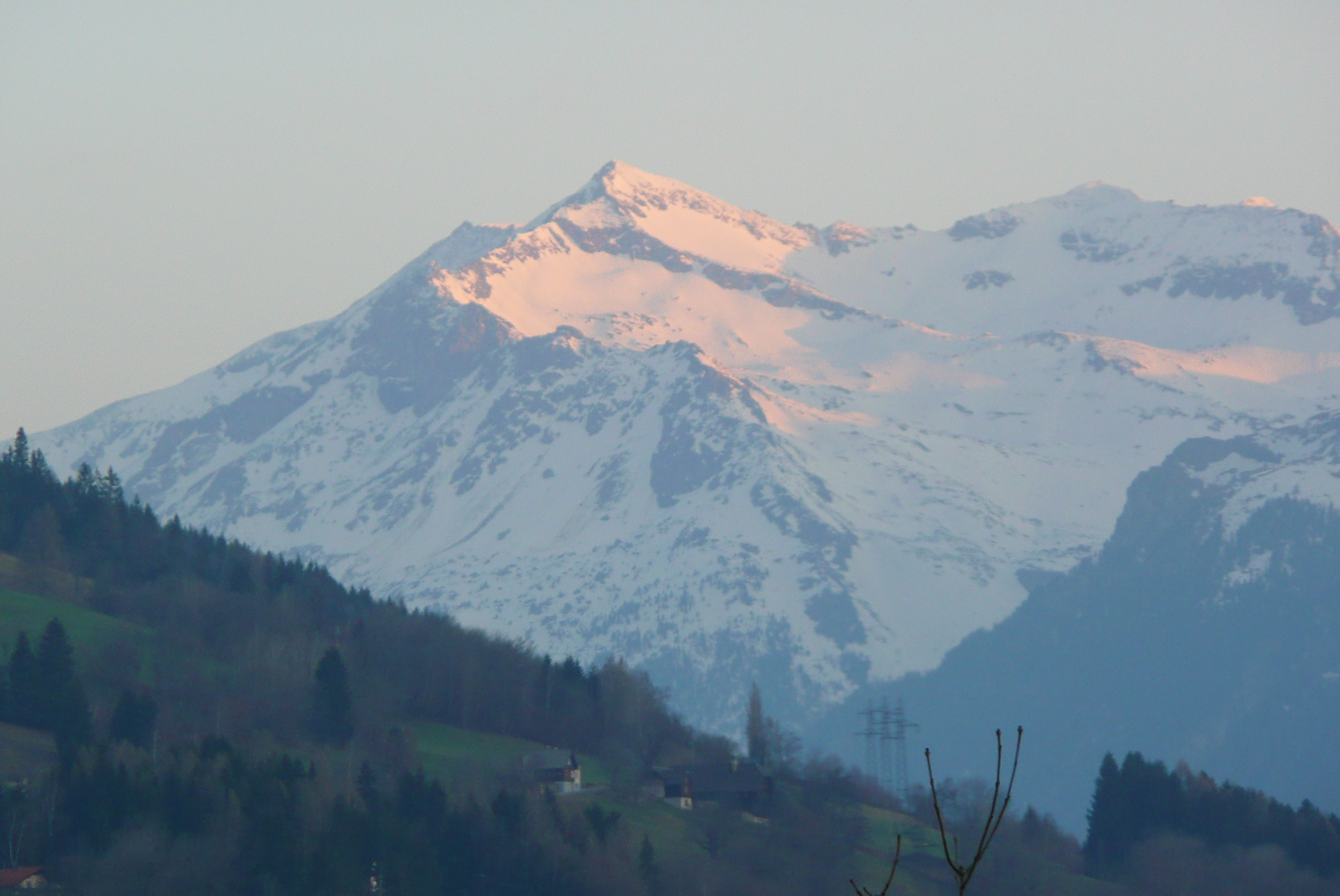 View on Großer Sonnblick (3030 m, Carinthia, Austria) and Mittlerer Sonnblick (3000 m) from south